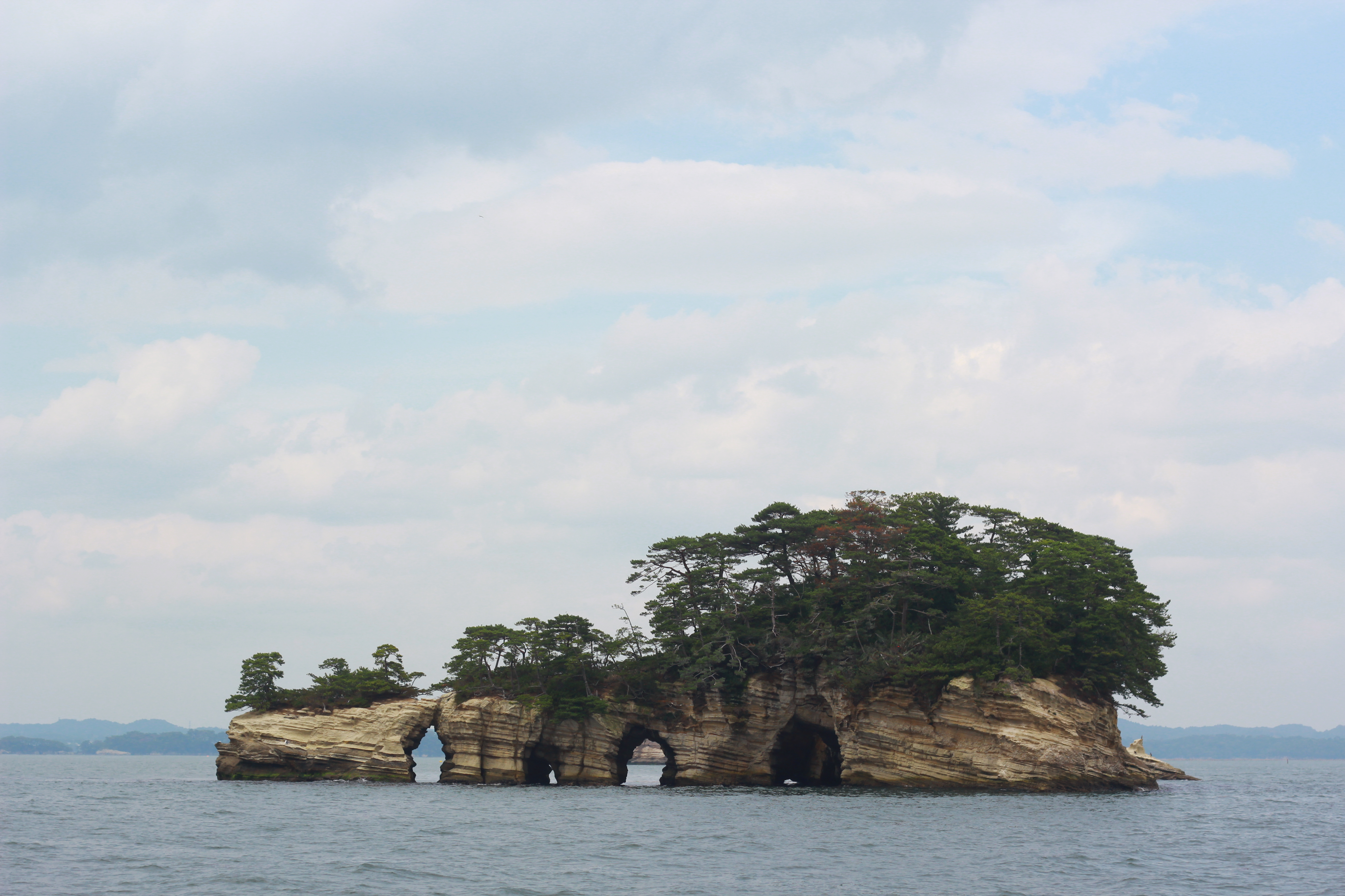 One of the most famous islands of the Matsushima peninsula (Miyagi pref).